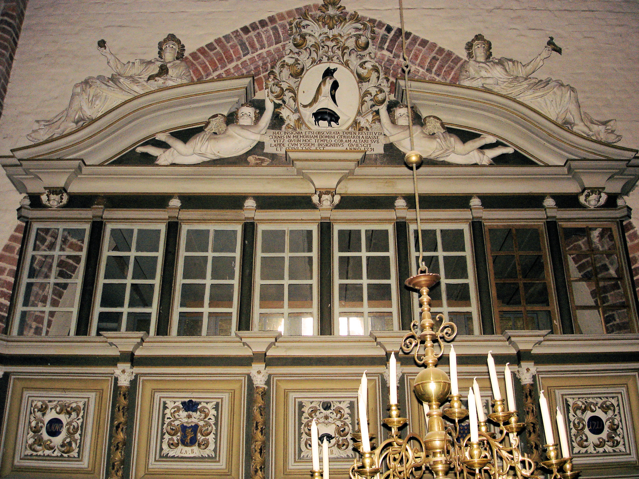 Church in Basse, galery of the patron